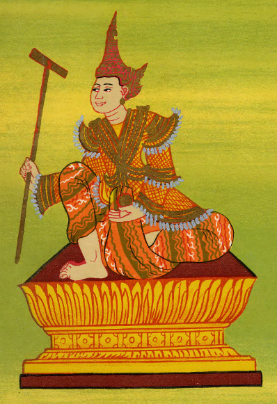 Shwe Nawrahta nat (spirit), th in the official pantheon of Burmese nats